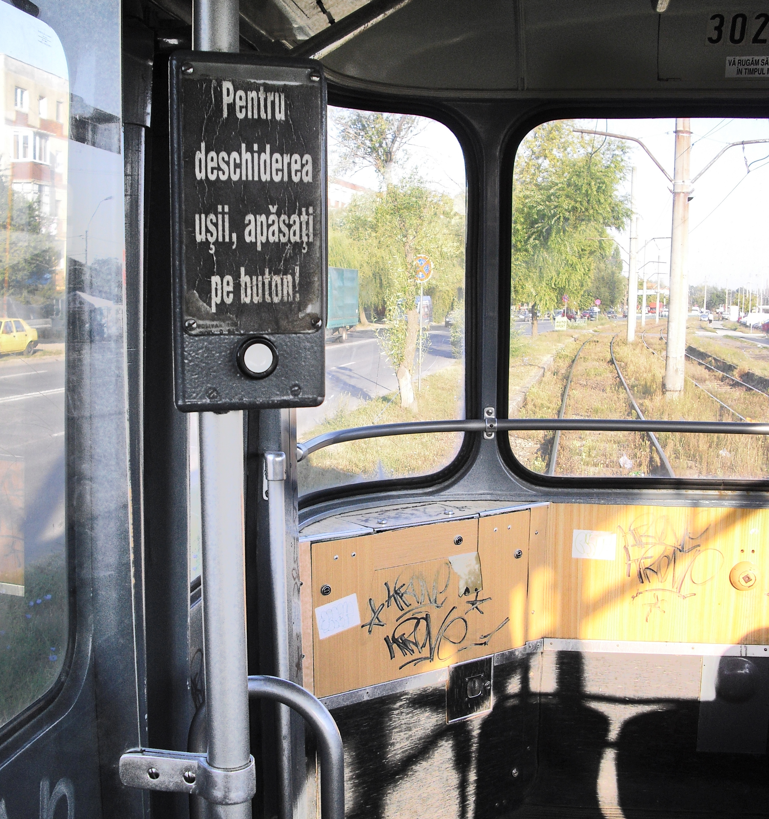 GT4 type tram in Timisoara.